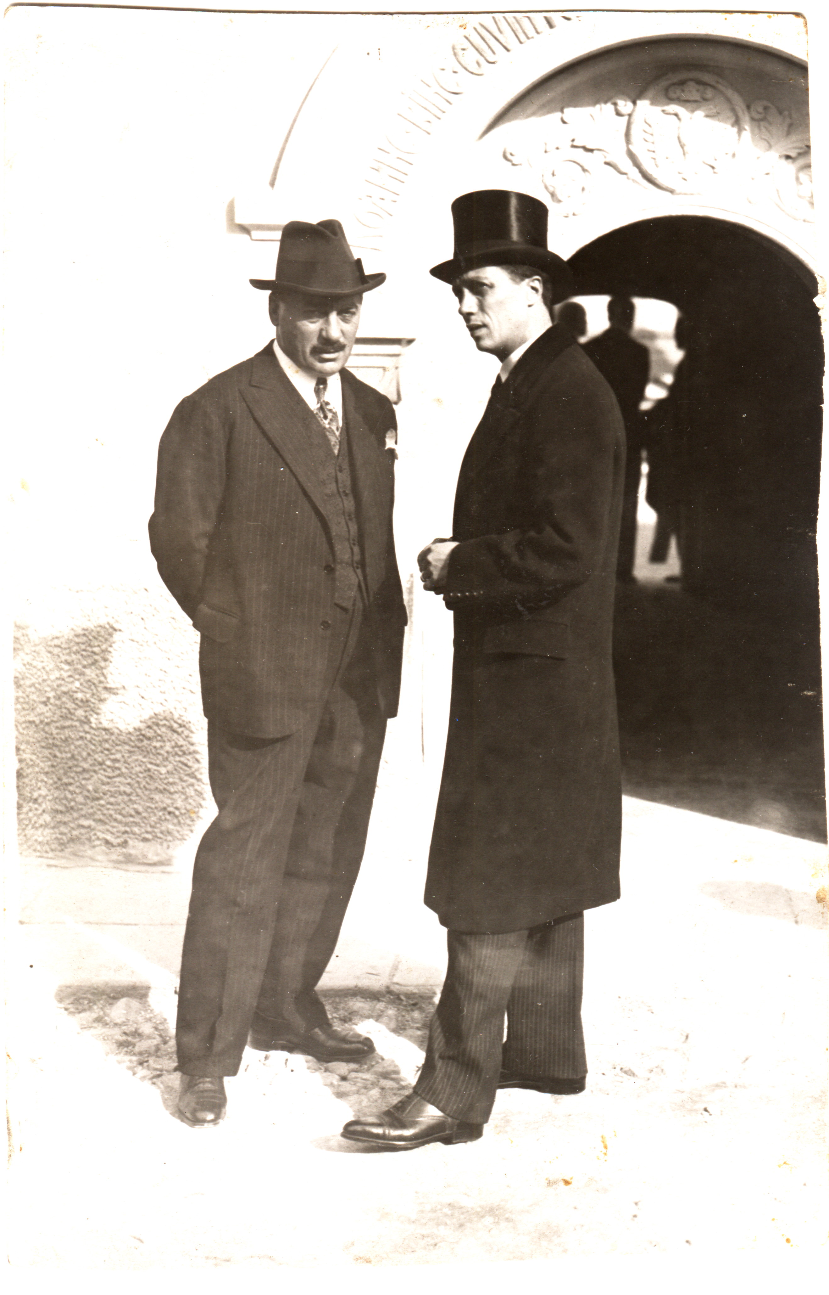 Savel Rădulescu (right) and Mihai Ispasiu (left), the political and financial consultants of Nicolae Titulescu during his function as a Minister of Foreign Affairs in the government of Romania, speak in front of the entrance into the old Monastery of Sinaia, Romania.